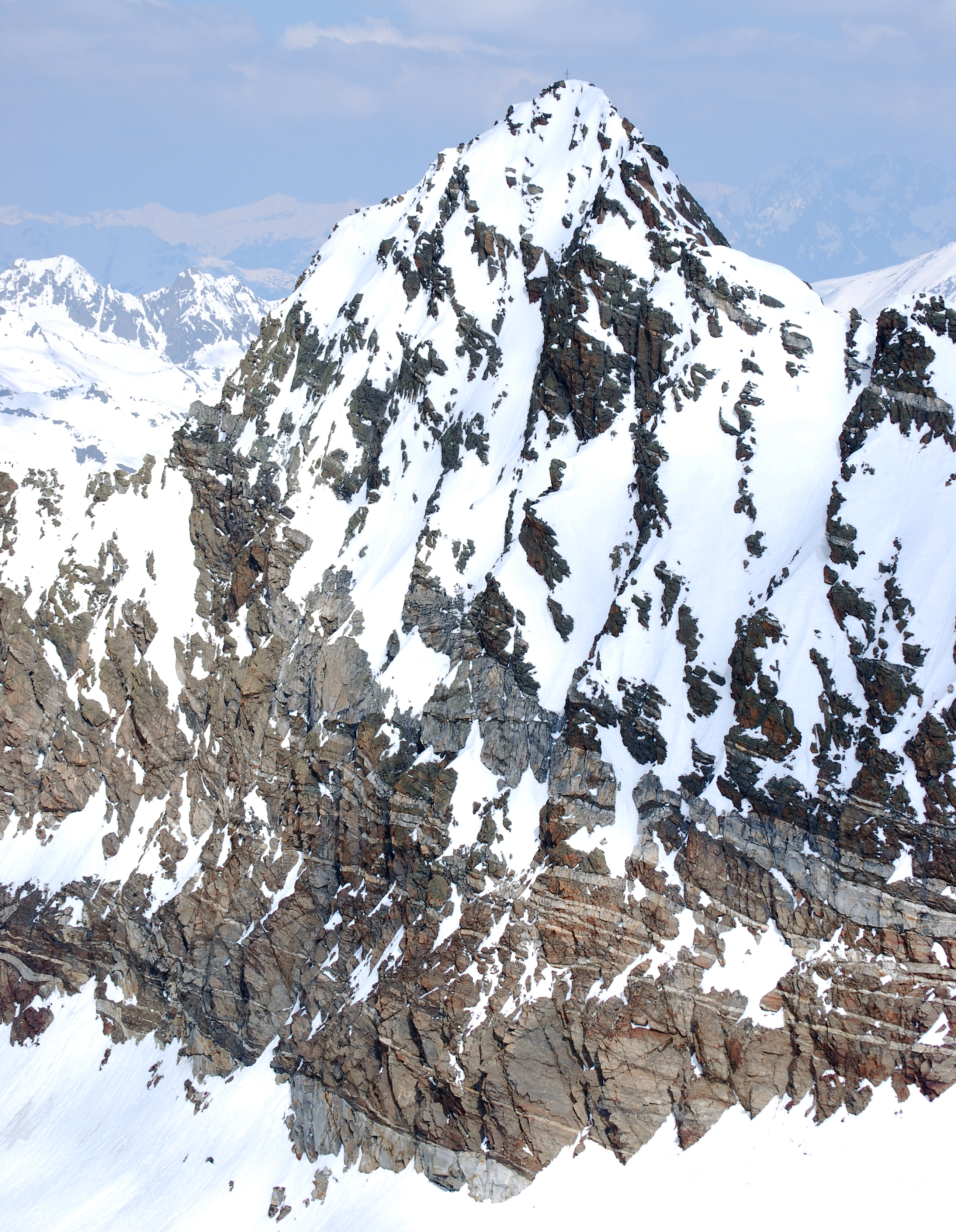 Strahlkogel from SW (Breiter Grieskogel)